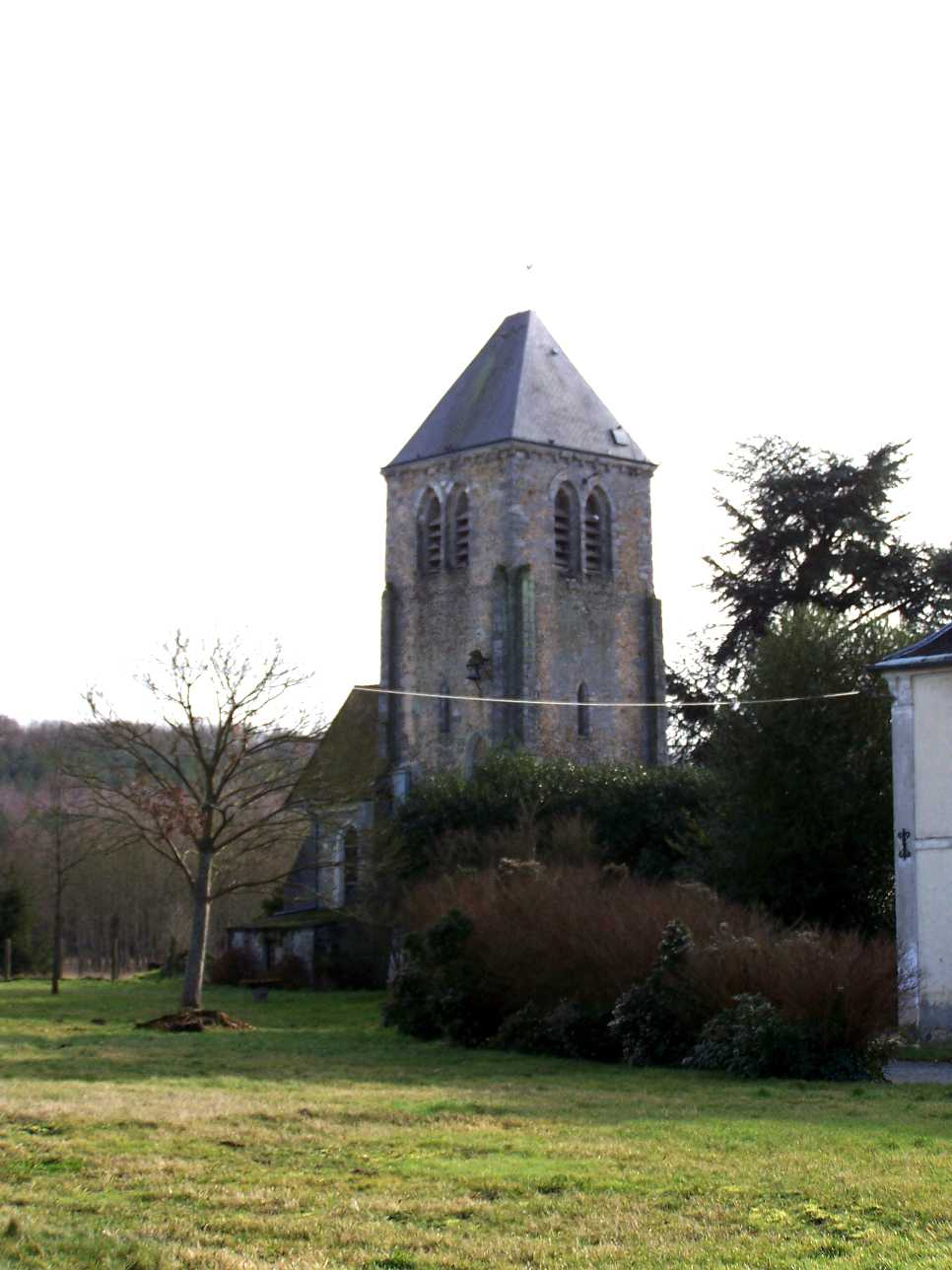 Private church of the domain of Grandchamp (Yvelines, France)